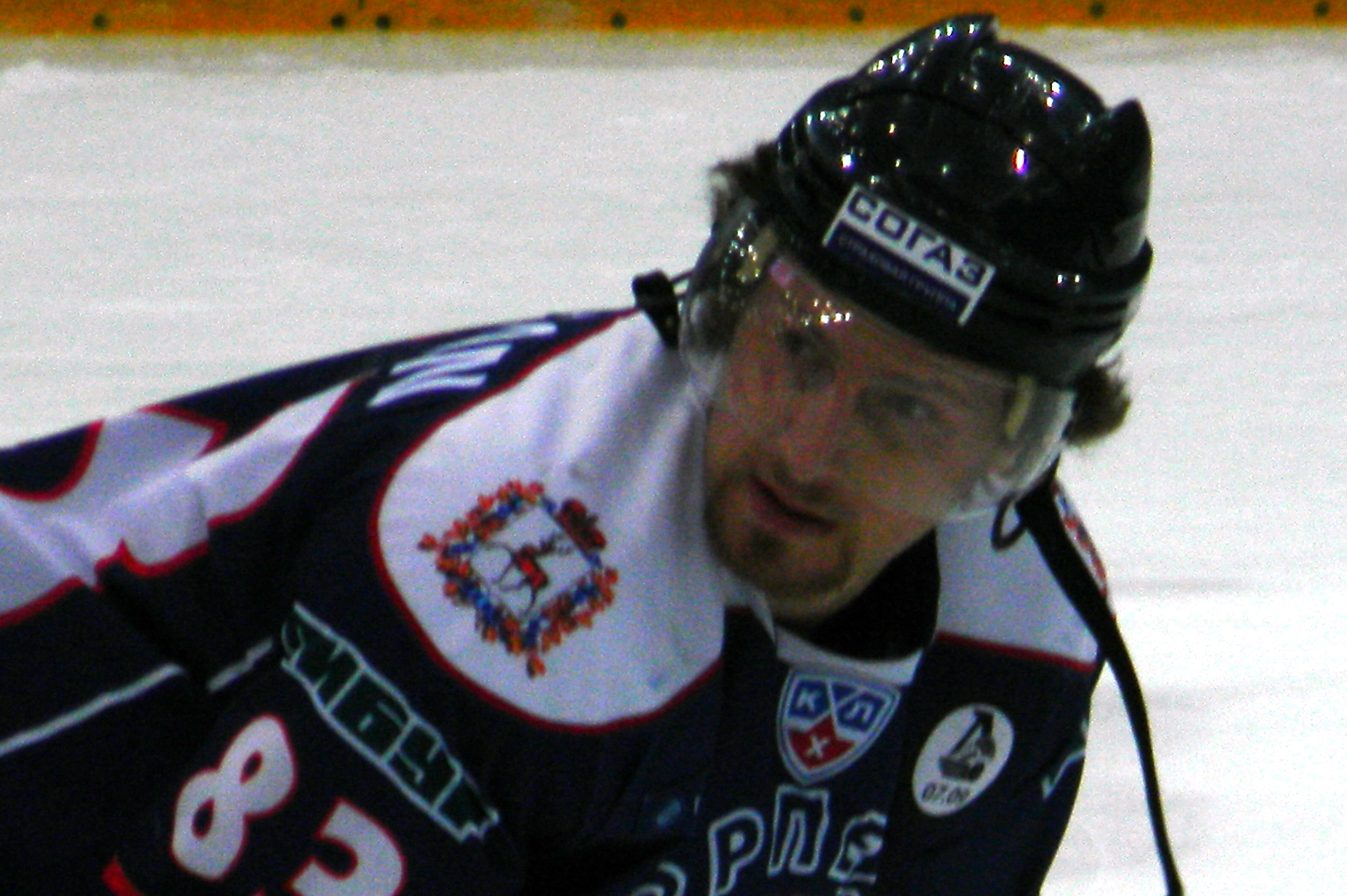 Matt Ellison, a hockey player from Torpedo Nizhny Novgorod